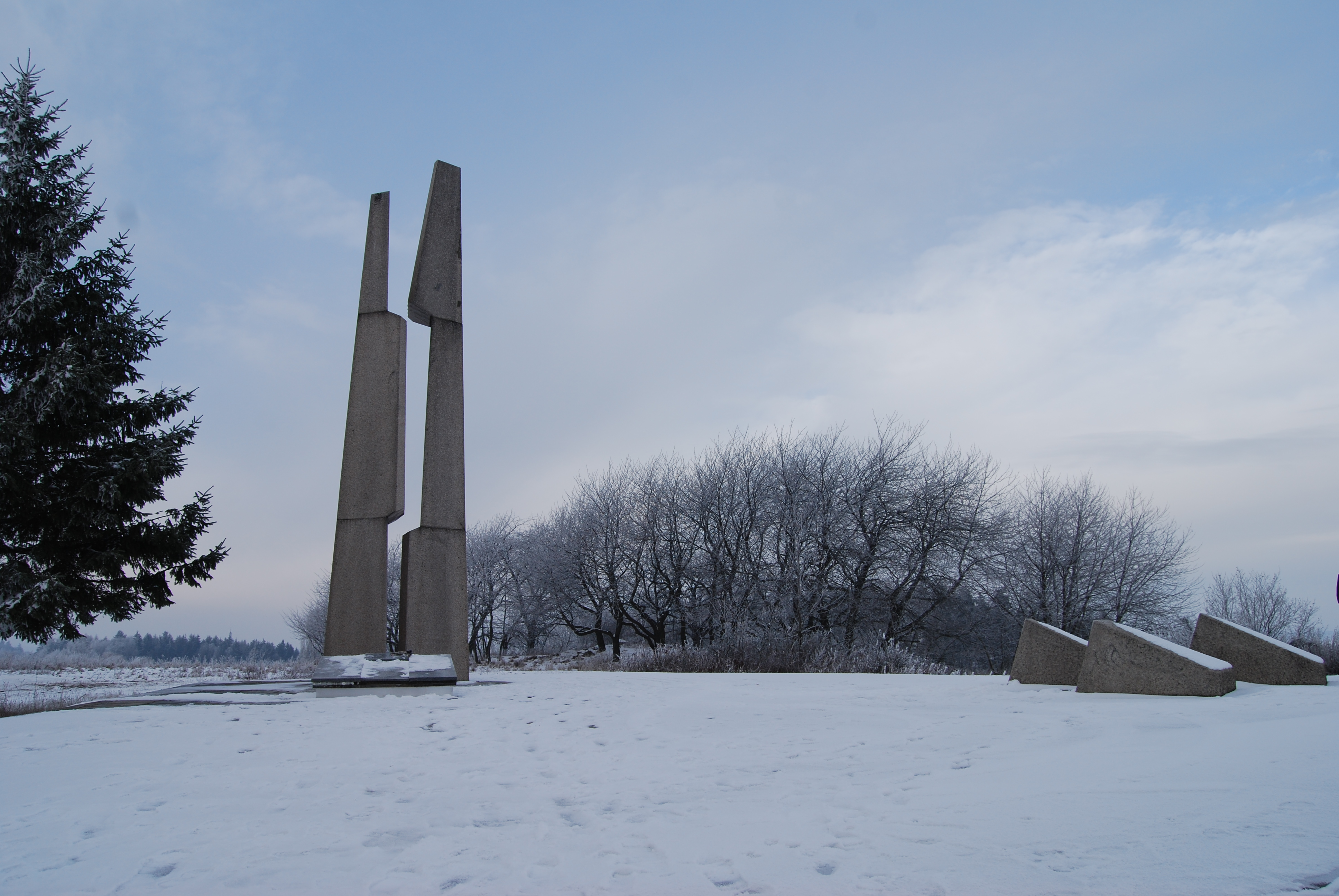 Last place of batlle in Second World War in Europe. Milín, Czech Republic.